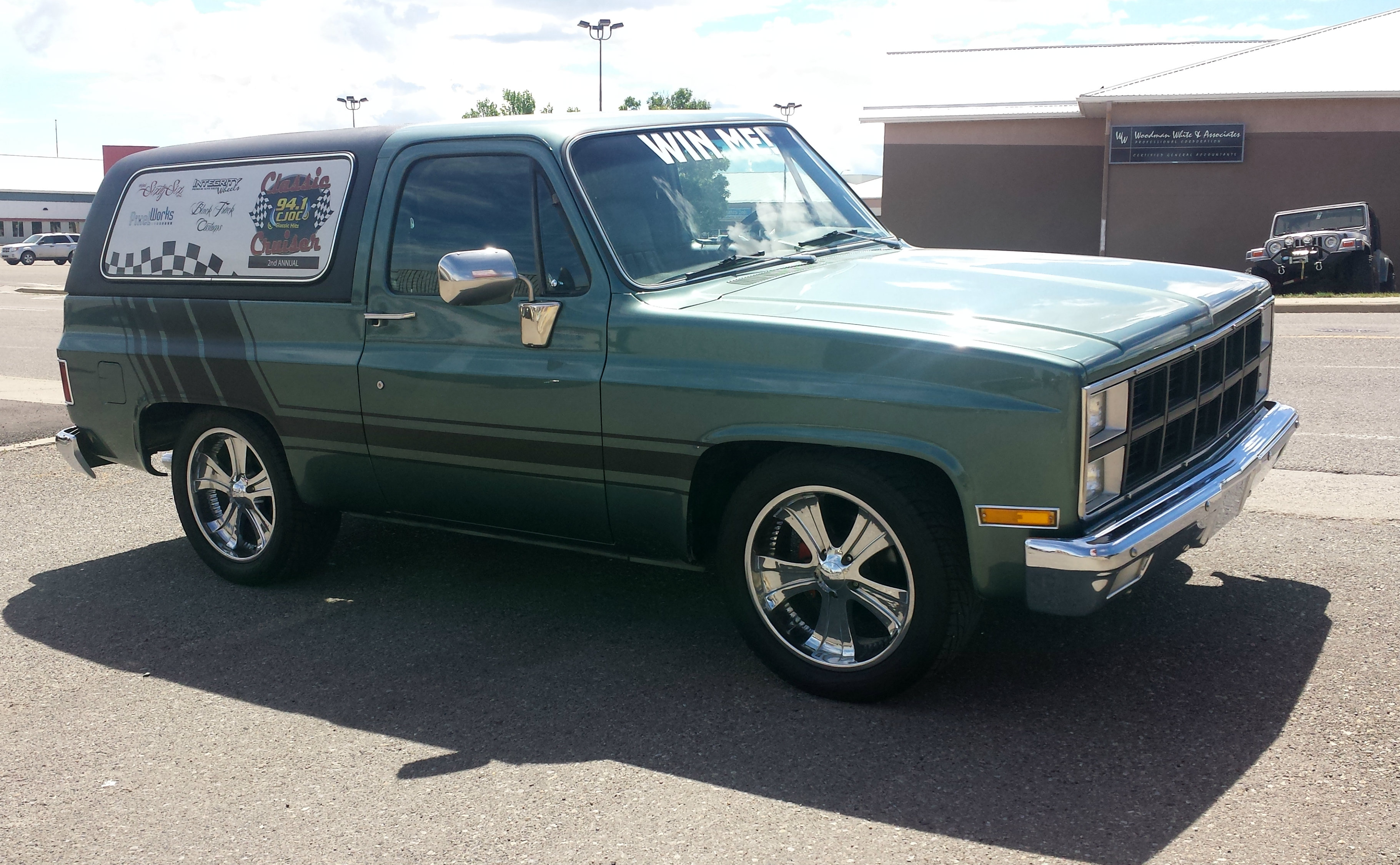 1981 GMC Jimmy that is being given away by a local radio station.